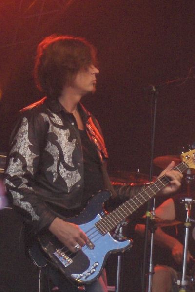 John Levén, bassist in the Swedish rock band Europe, on stage in Lakselv, Norway on July 13, 2008.